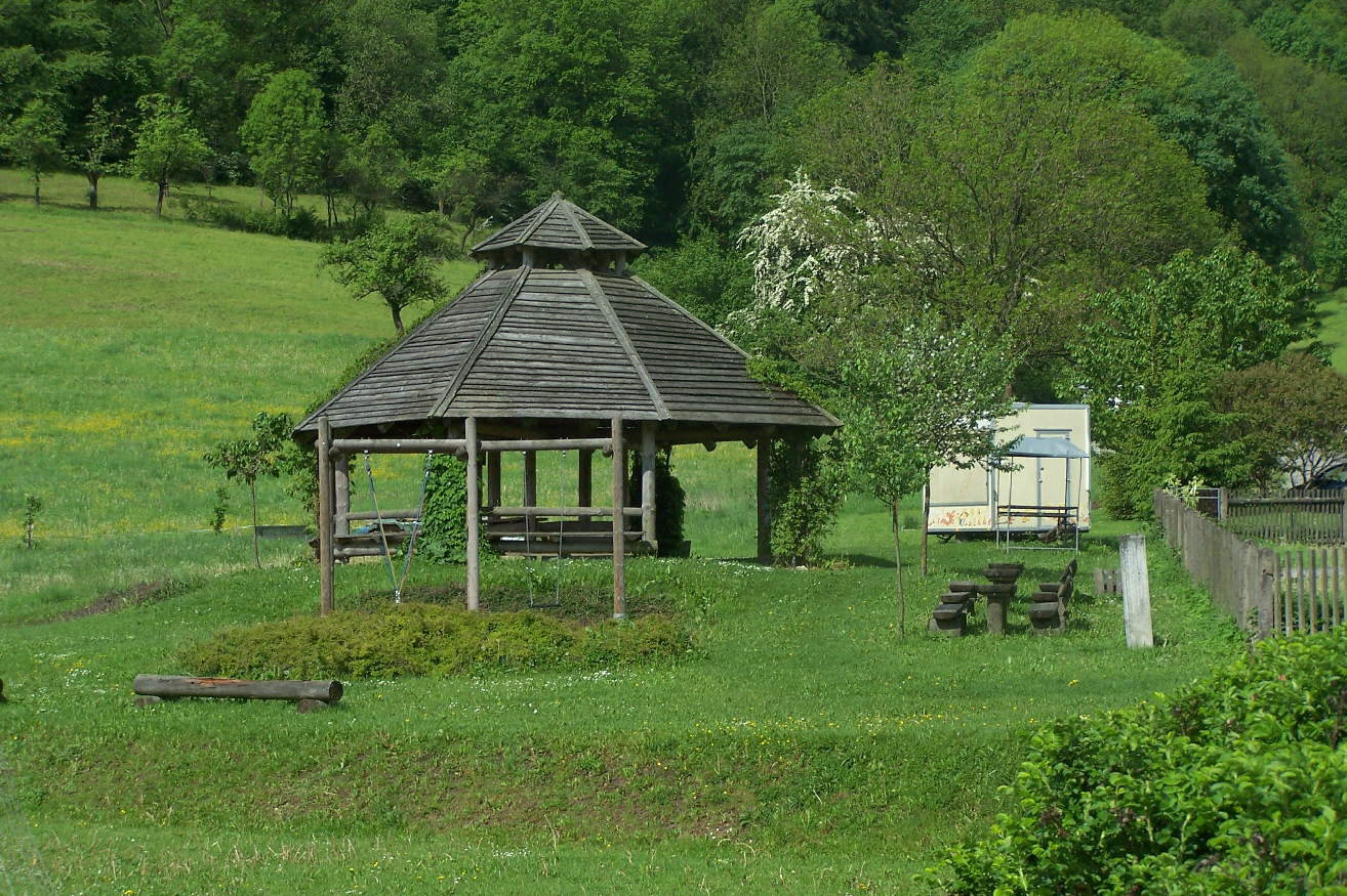 The playground in Hallungen village.